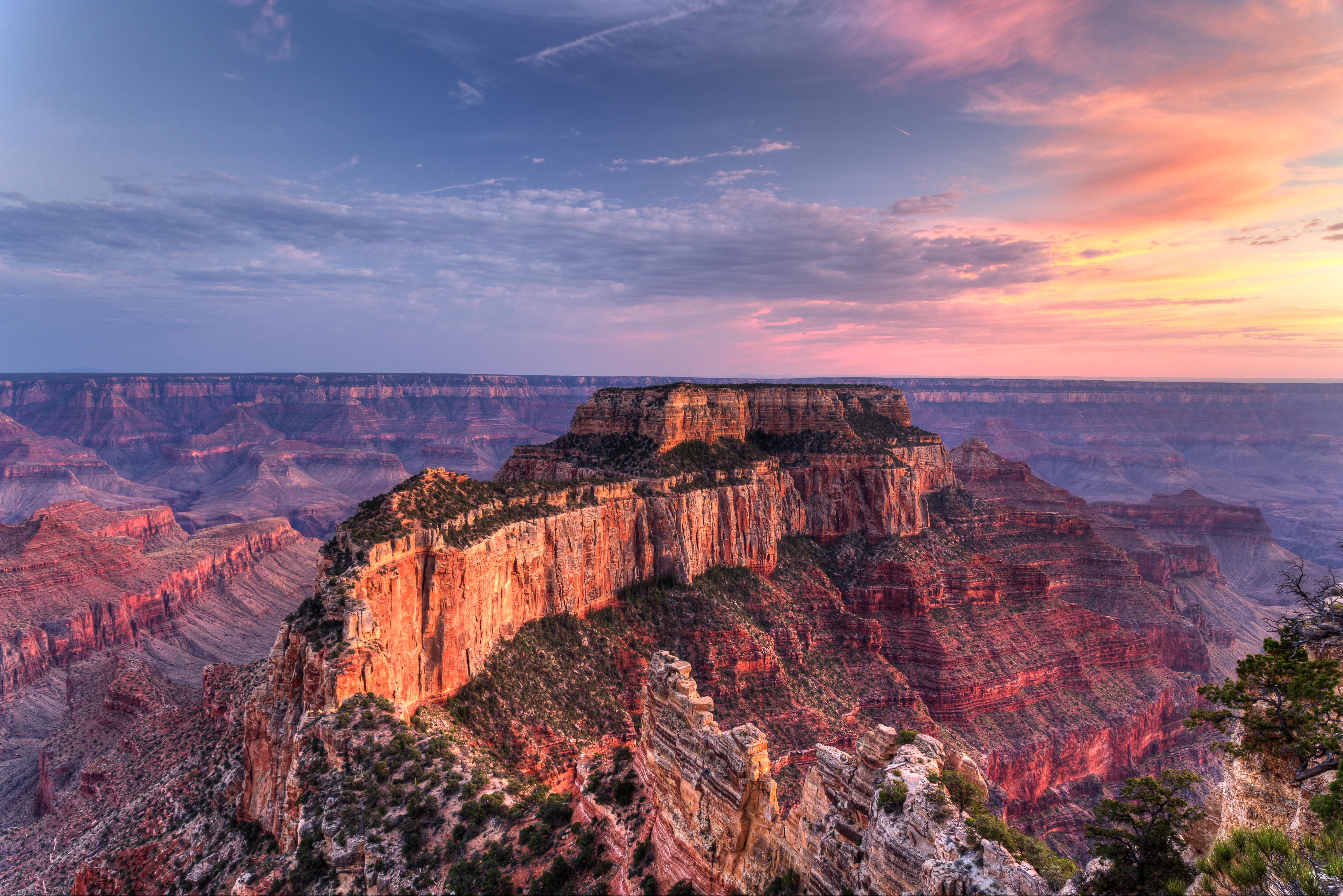 Sunset at Cape Royal Point, Grand Canyon National Park North Rim